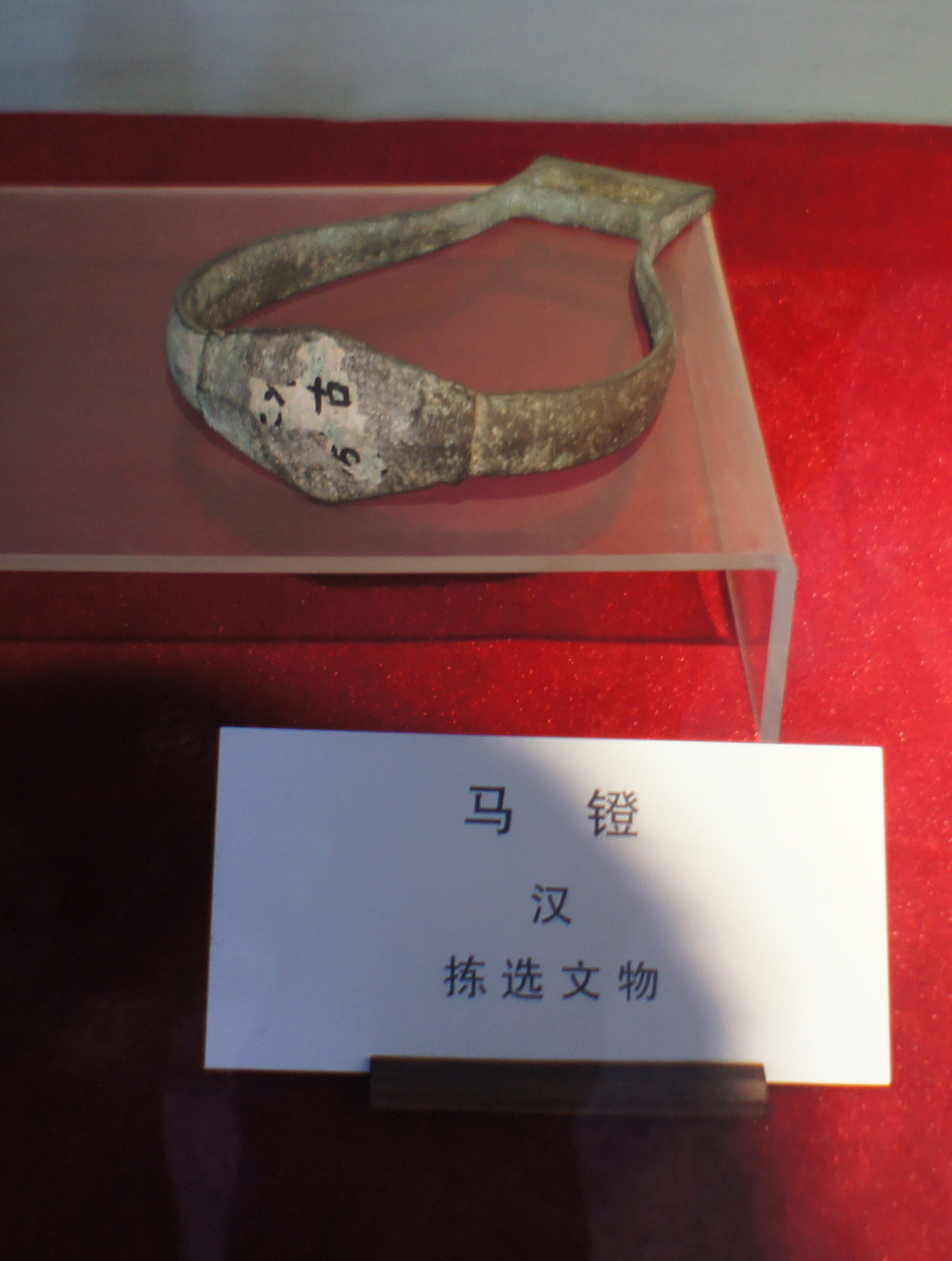 Horse stirrup dated from the Han dynasty (202 BC-220 AD).